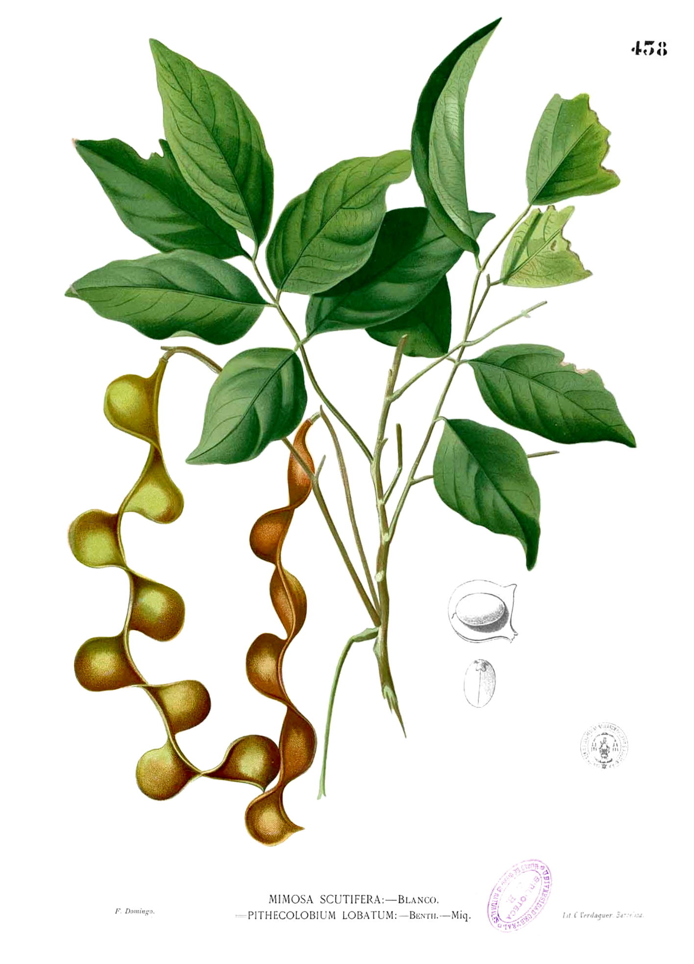 Plate from book